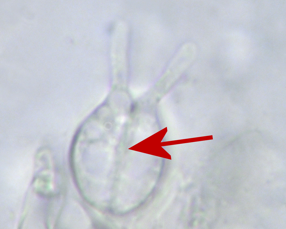 Phragmobasidia with longitudinal septa - sideview